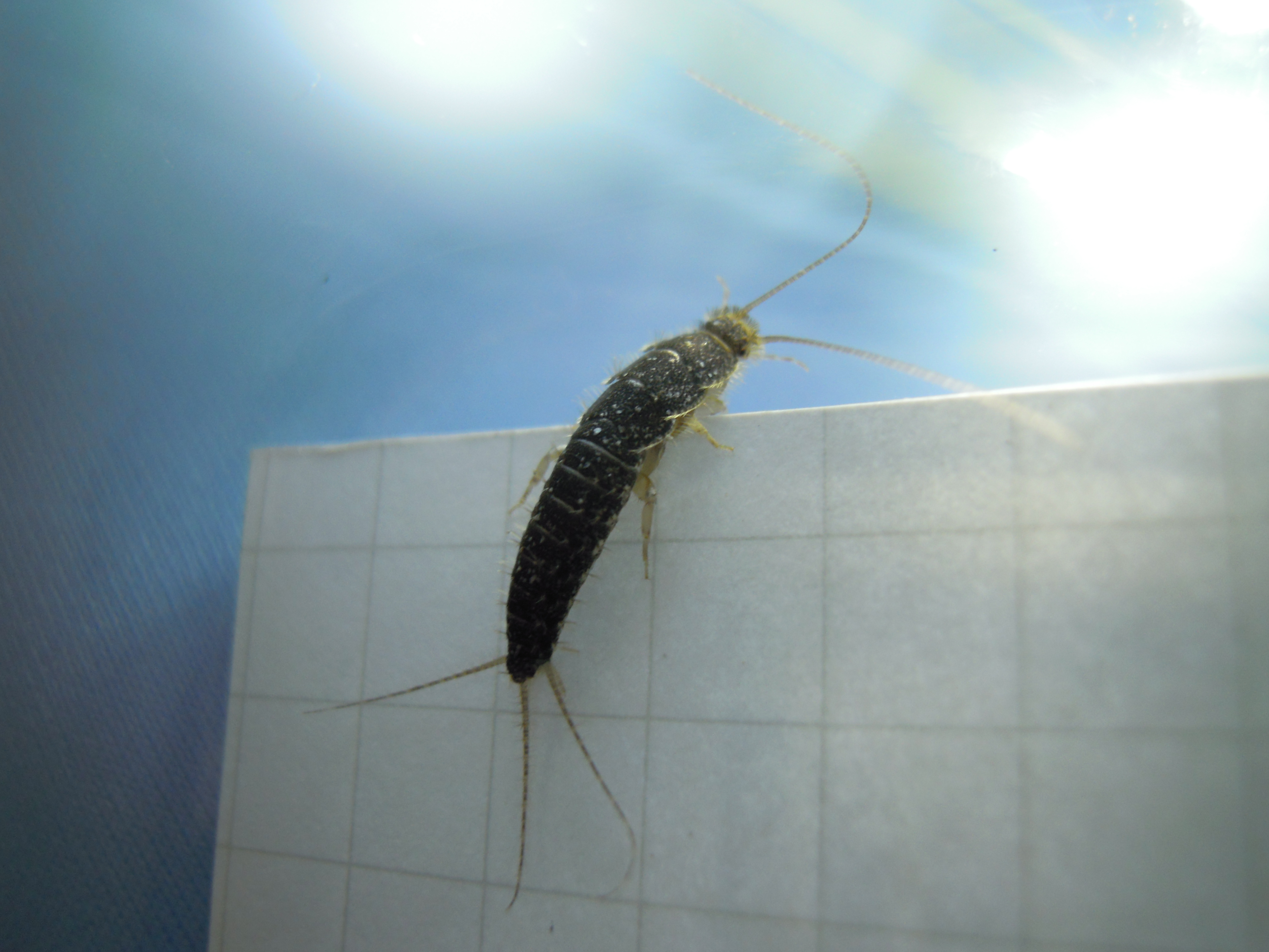 Ctenoleposma pinicola (male, adult), scale=5mm.